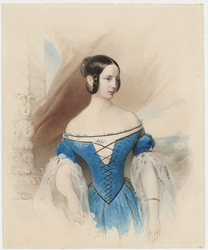 Grand Duchess Alexandra Nikolaevna of Russia